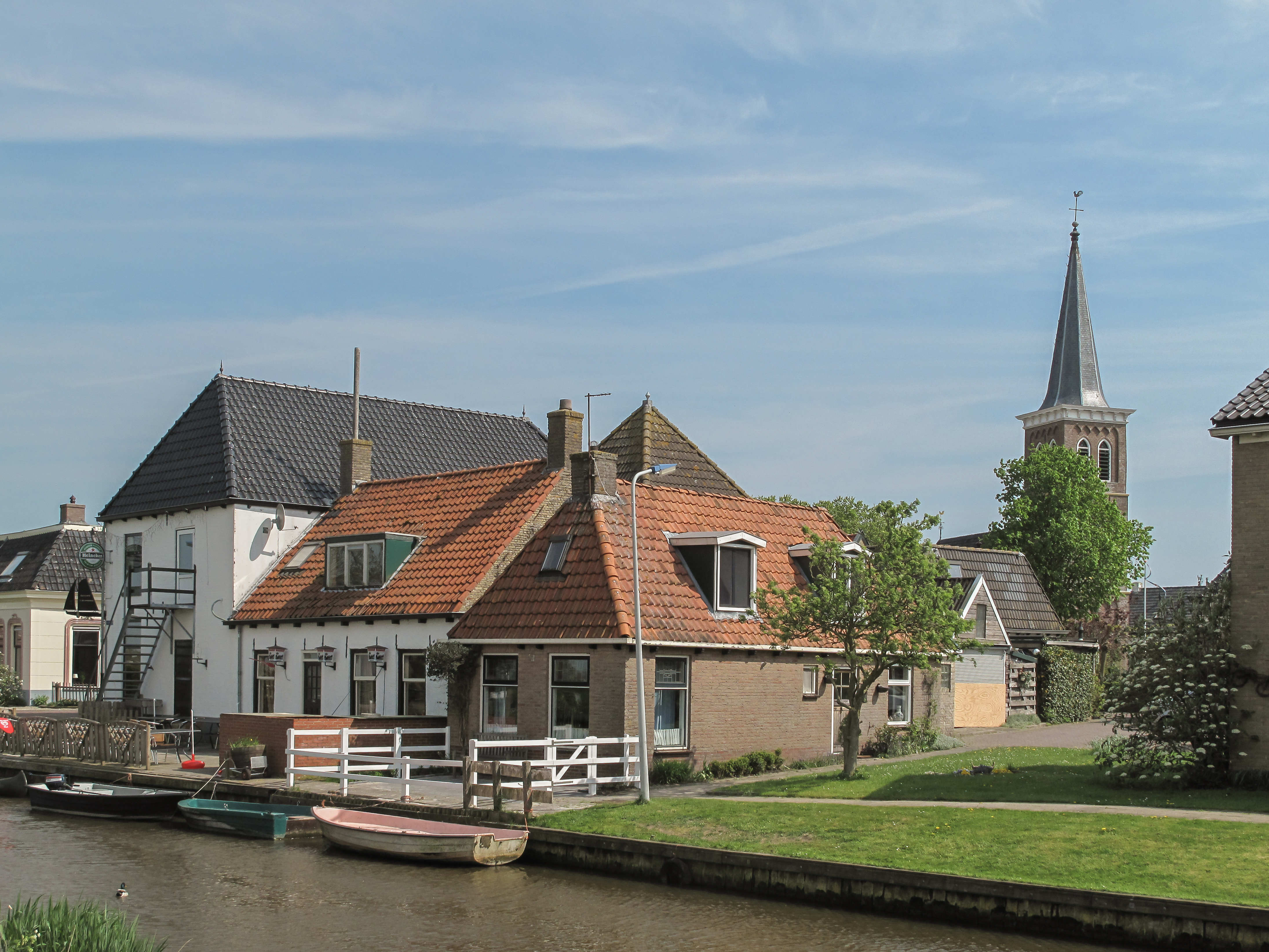 Baard, view to the village